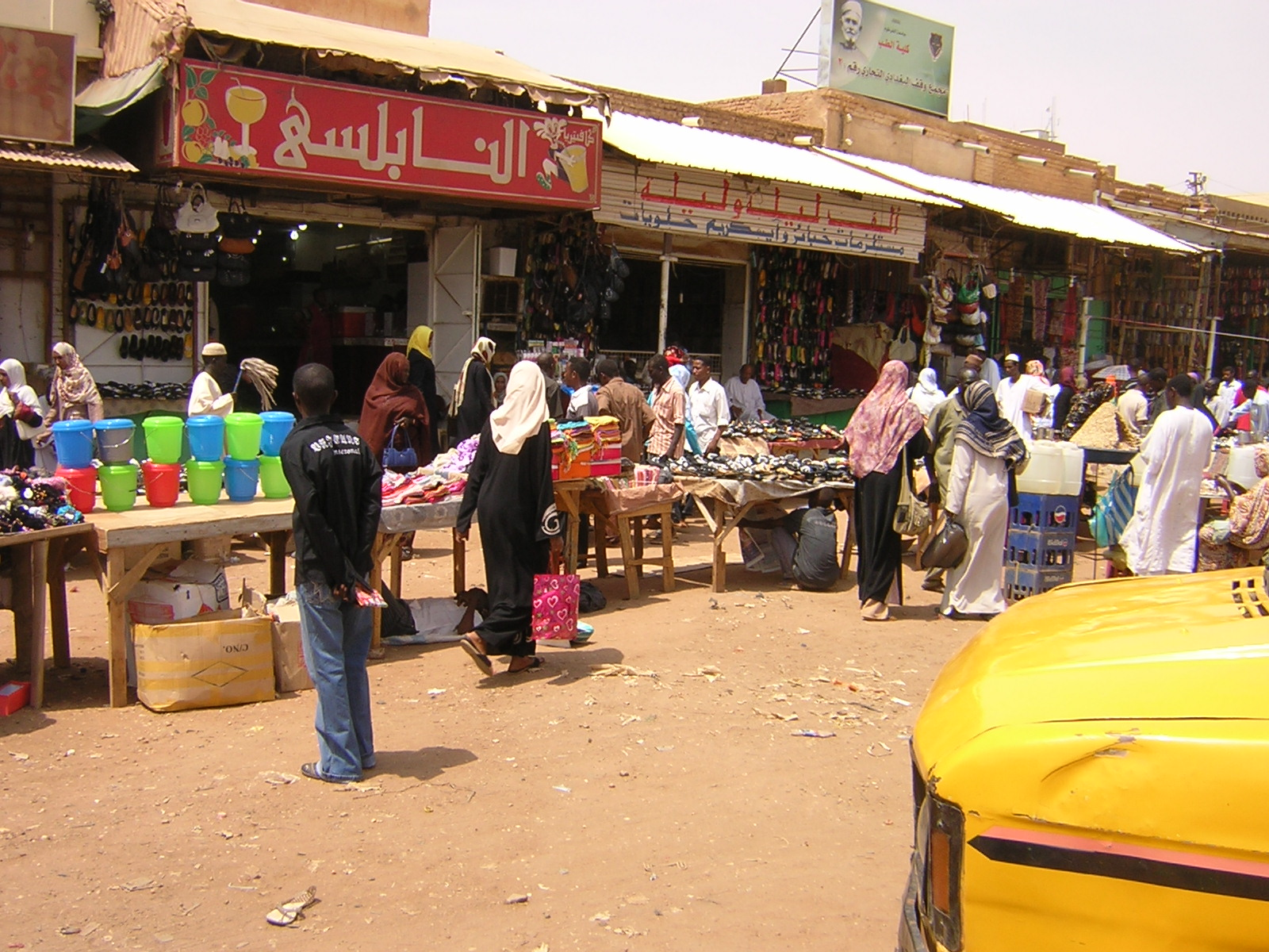 Market in Omdurman, Sudan.